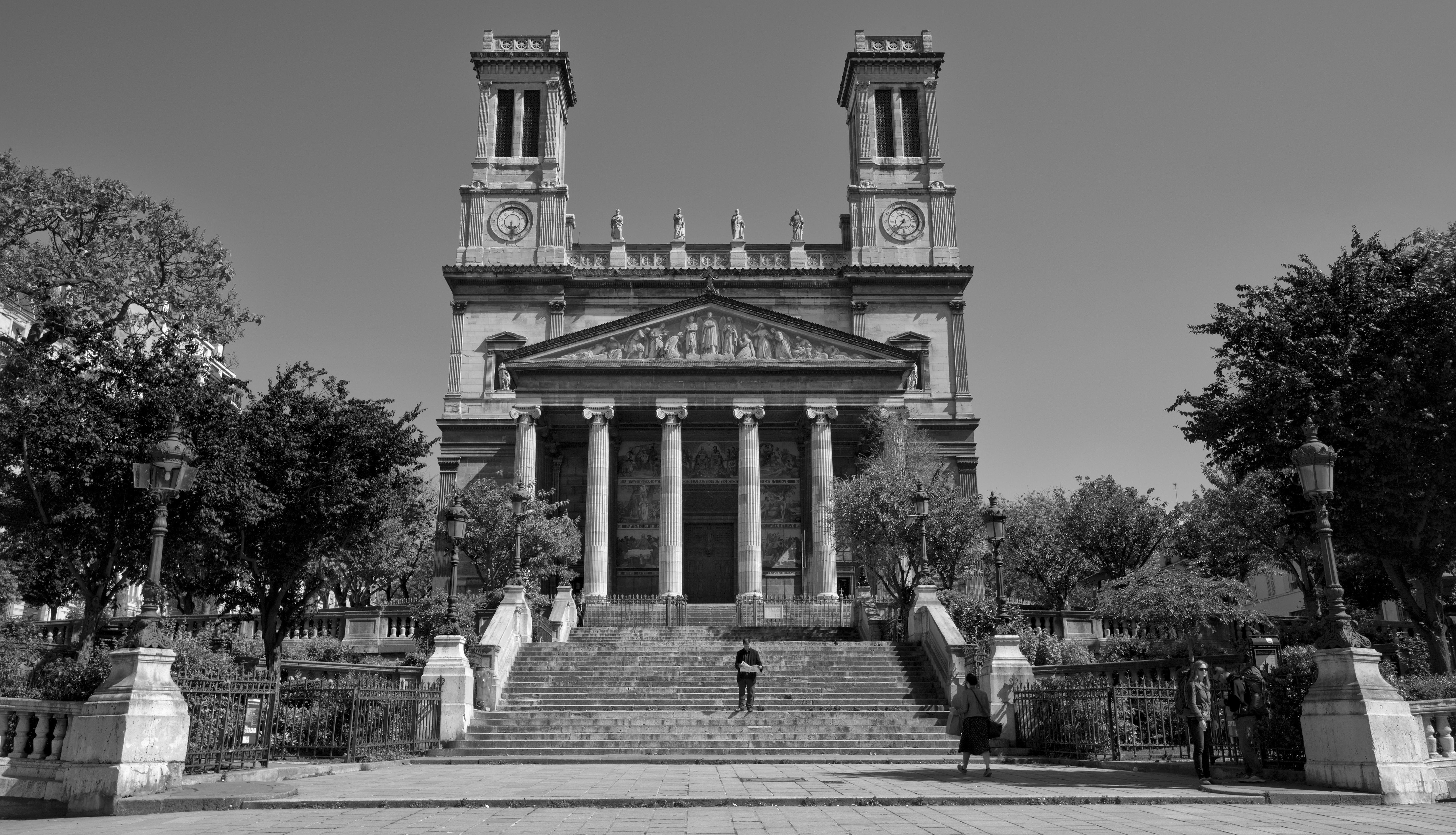 General view in black and white of the Église Saint Vincent de Paul in Paris, France, showing details of front facade, situation and figures for scale.